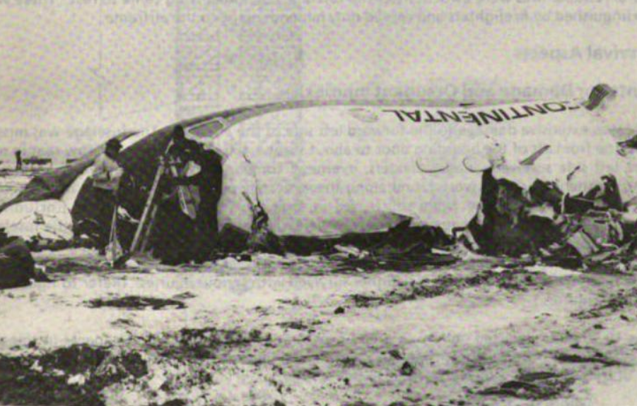 Continental Air Lines Flight 1713 wreckage